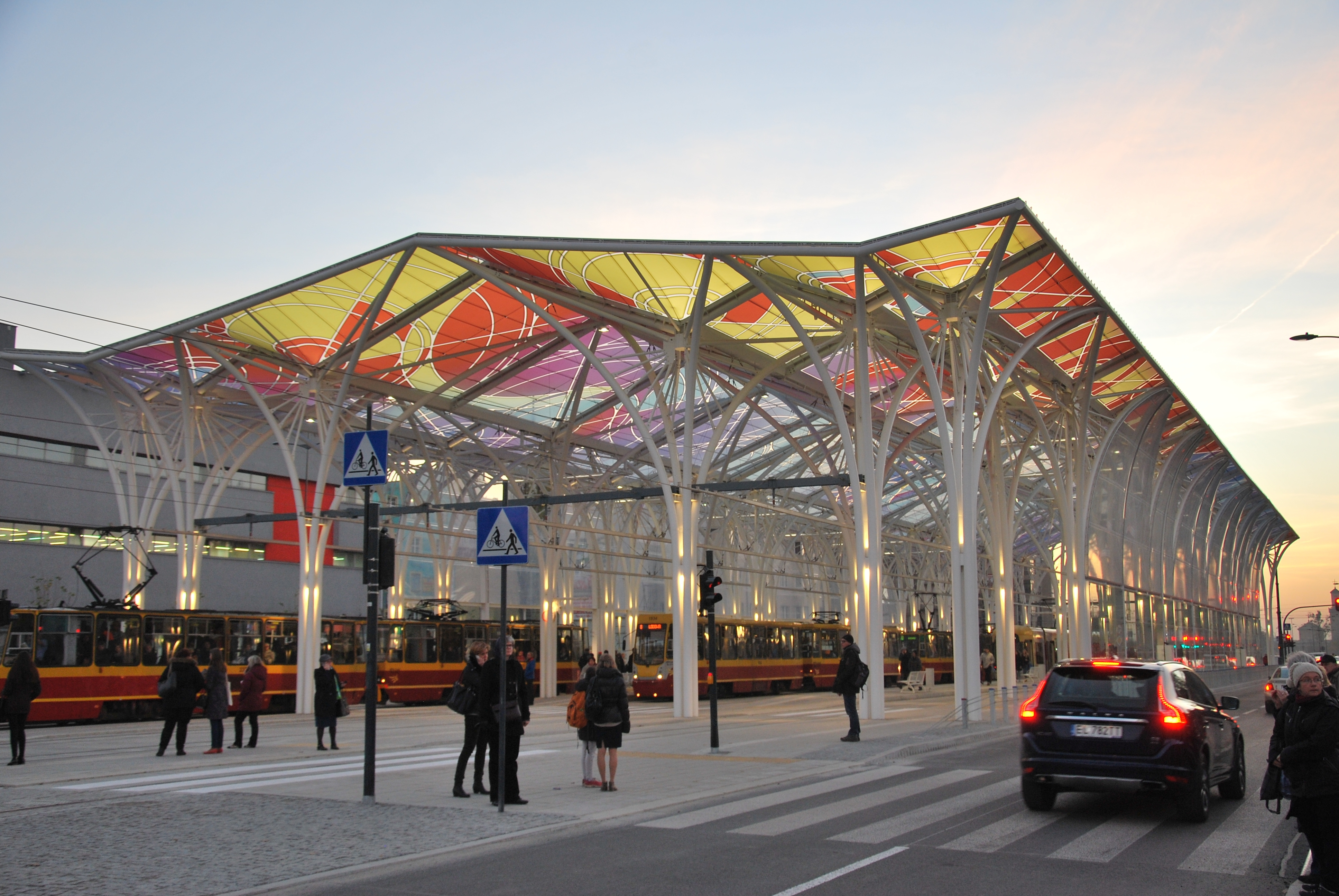 Transfer station Piotrkowska-Centrum, Łódź Piłsudskiego Av. November 2015